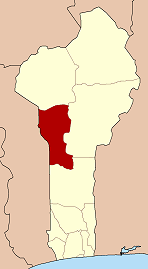 Map of Benin highlighting the department Donga